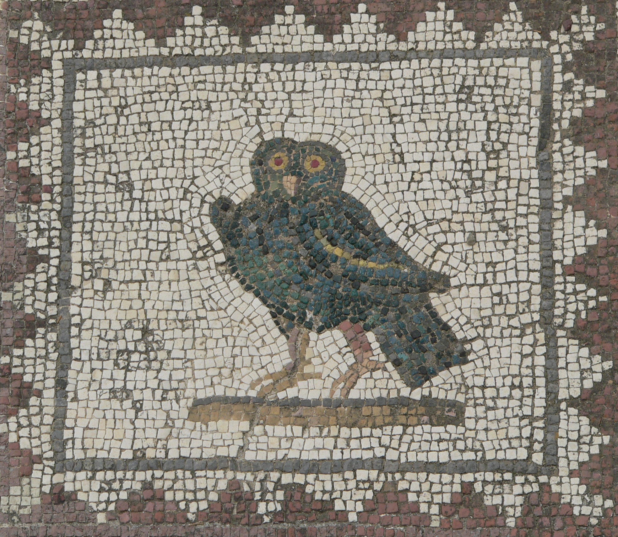 Roman mosaic in Itálica, Spain